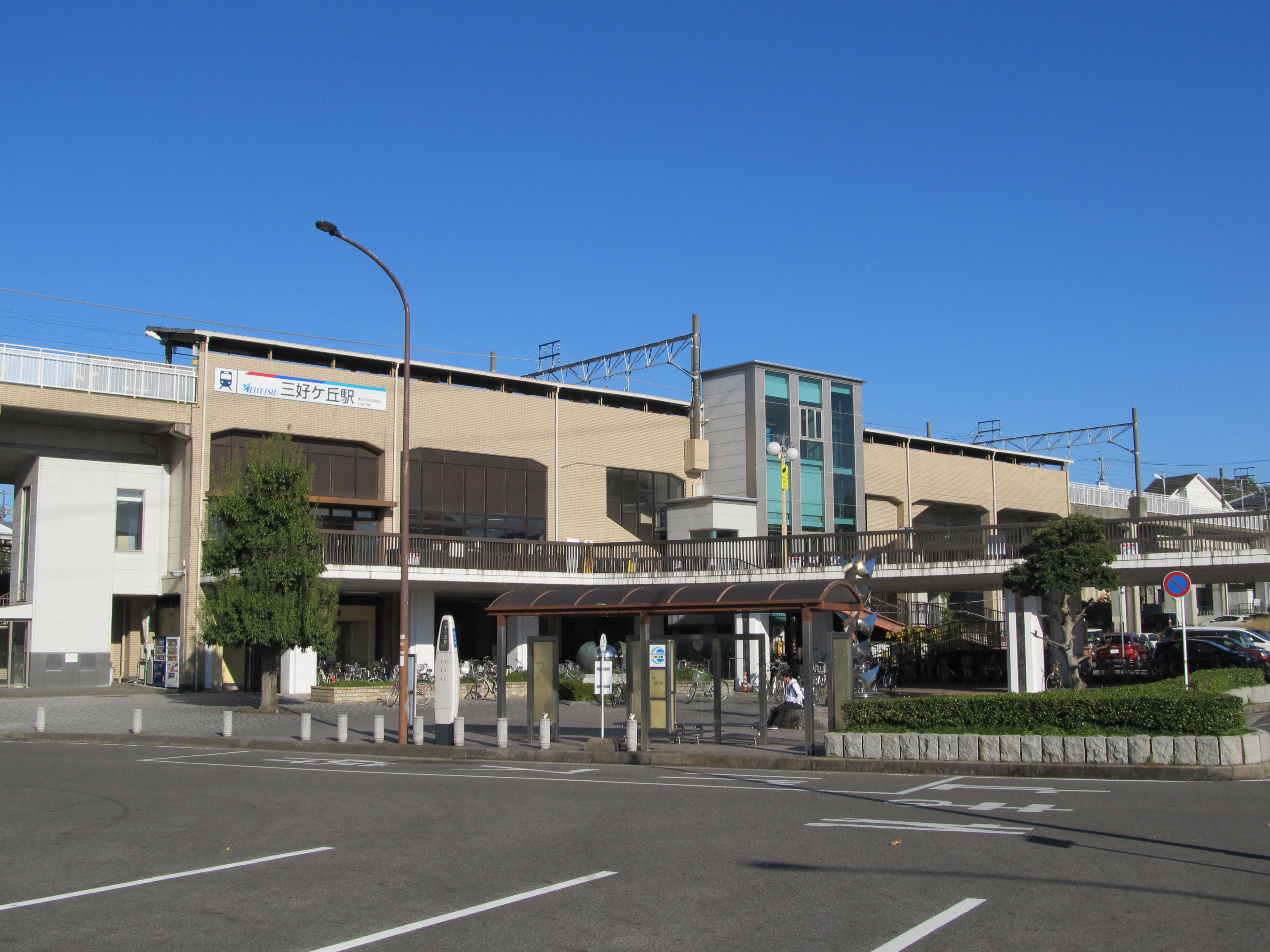 Nagoya Railroad Toyota Line Miyoshigaoka Station Plaza